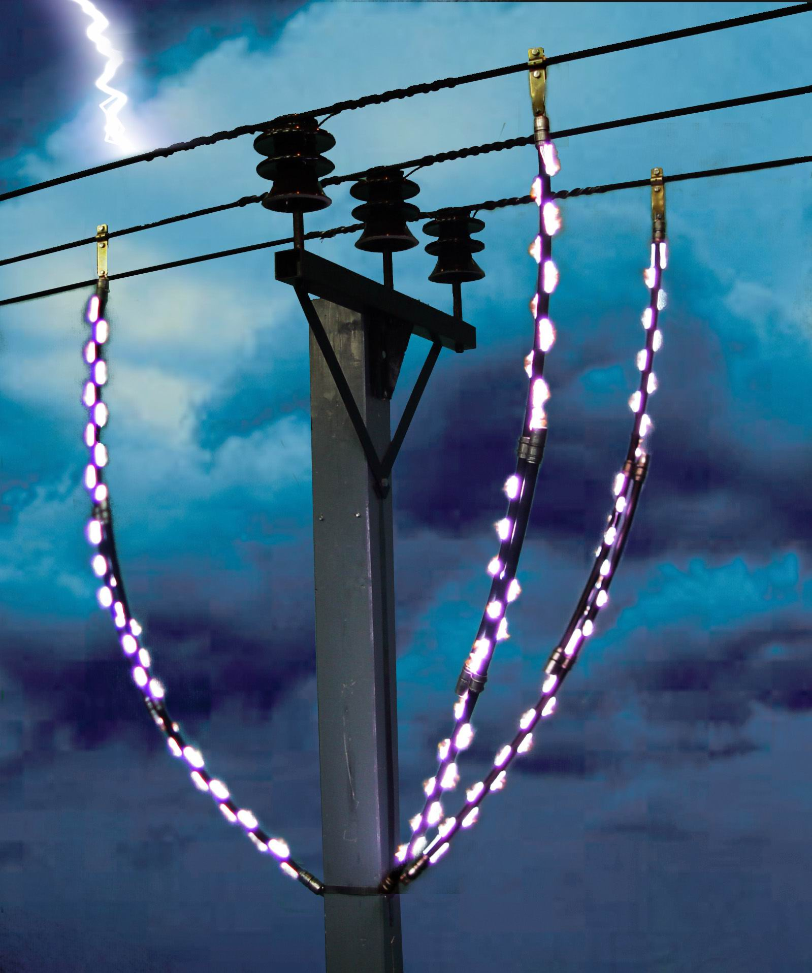 Modular long-flashover arrester (LFA), RDIM type; lightning protection device for medium-voltage overhead power lines